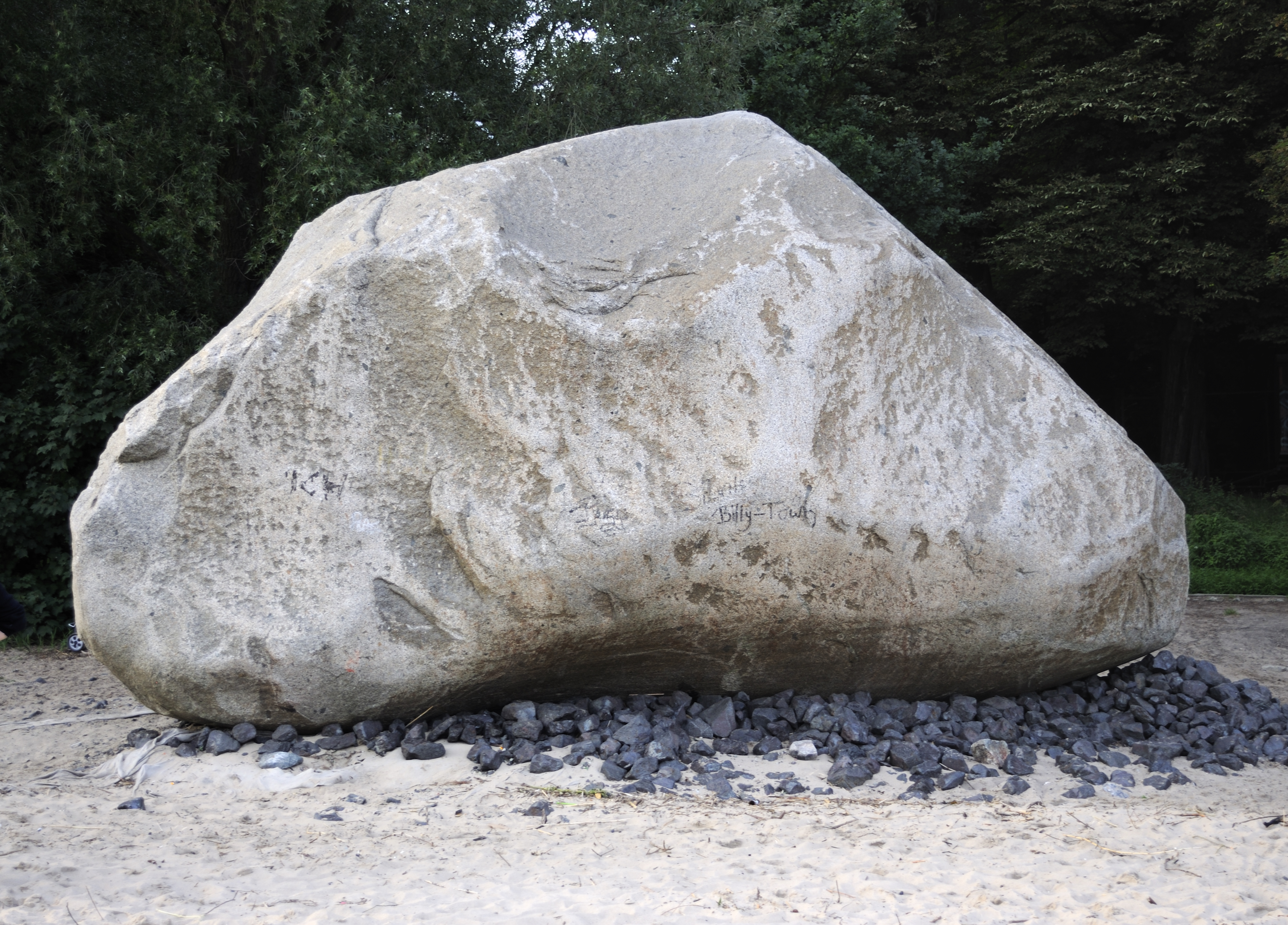 Picture taken in Hamburg. Alter Schwede.